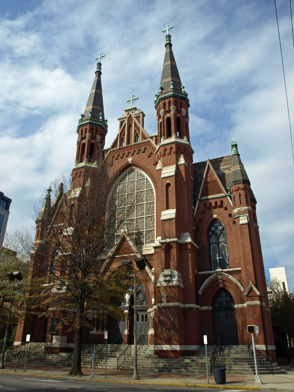 The Cathedral of Saint Paul in Birmingham, Alabama, listed on the National Register of Historic Places.